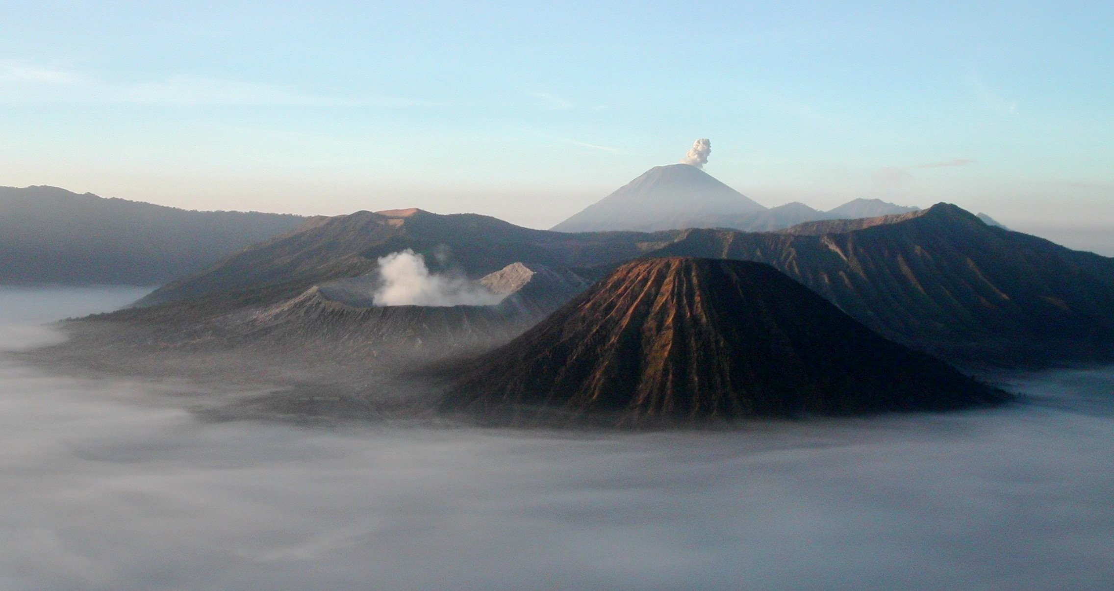 The Tengger massif in Java, Indonesia, at sunrise, showing the volcanoes Mt. Bromo (large crater, smoking) and Mt. Semeru (background, smoking). The early morning fog surrounds the peaks, covering a plain of finest volcanic ashes.